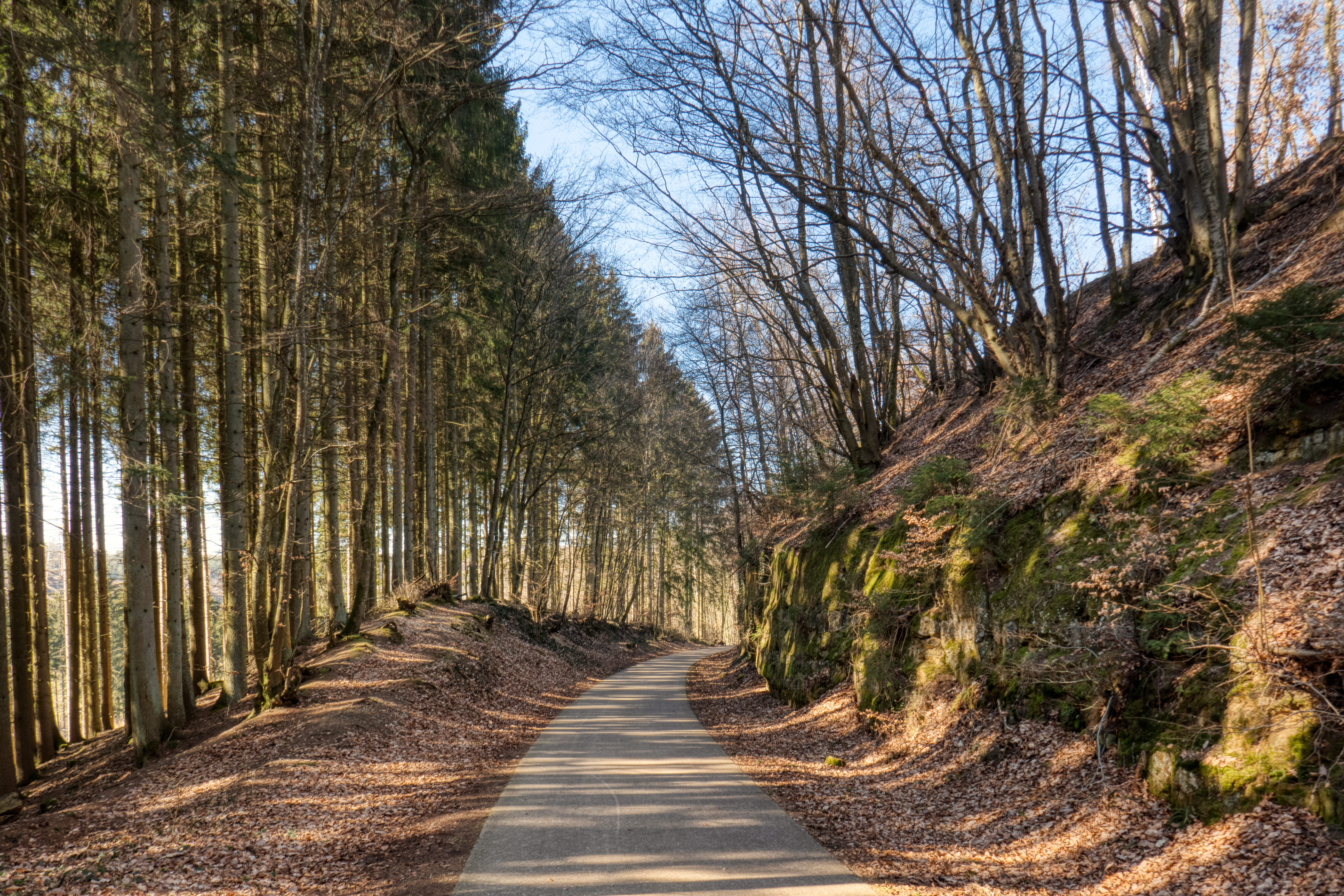 Traditional photo point on PC 12 near Eischen